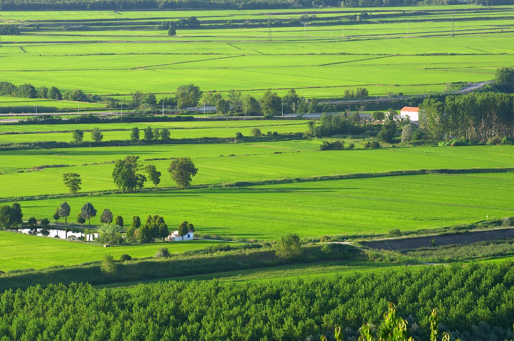 A view of the rice fields near Vercelli (Piedmont, Italy), as seen from Rocca delle Donne.